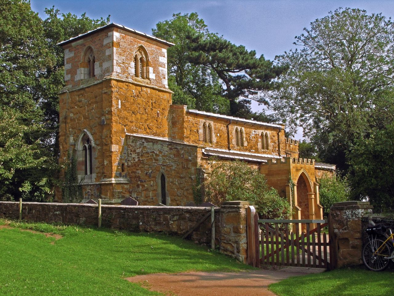 (All Saints)Ragdale a church mainly of ironstone.The chancel was rebuilt c.1767 by Earl Ferrers,along with the south porch.The church stands in a delightful position just above the village.